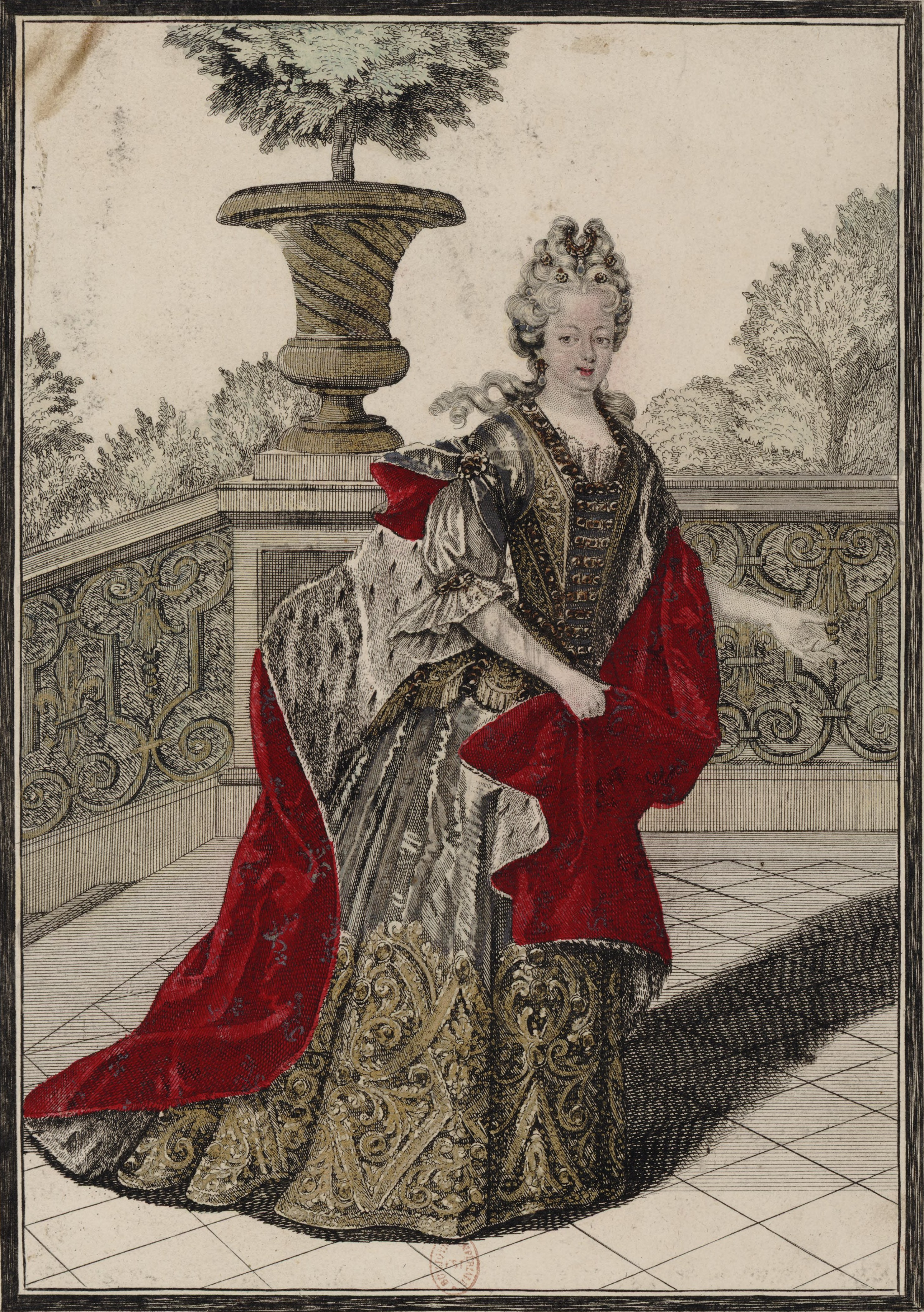 Marie Adélaïde of Savoy while Duchess of Burgundy